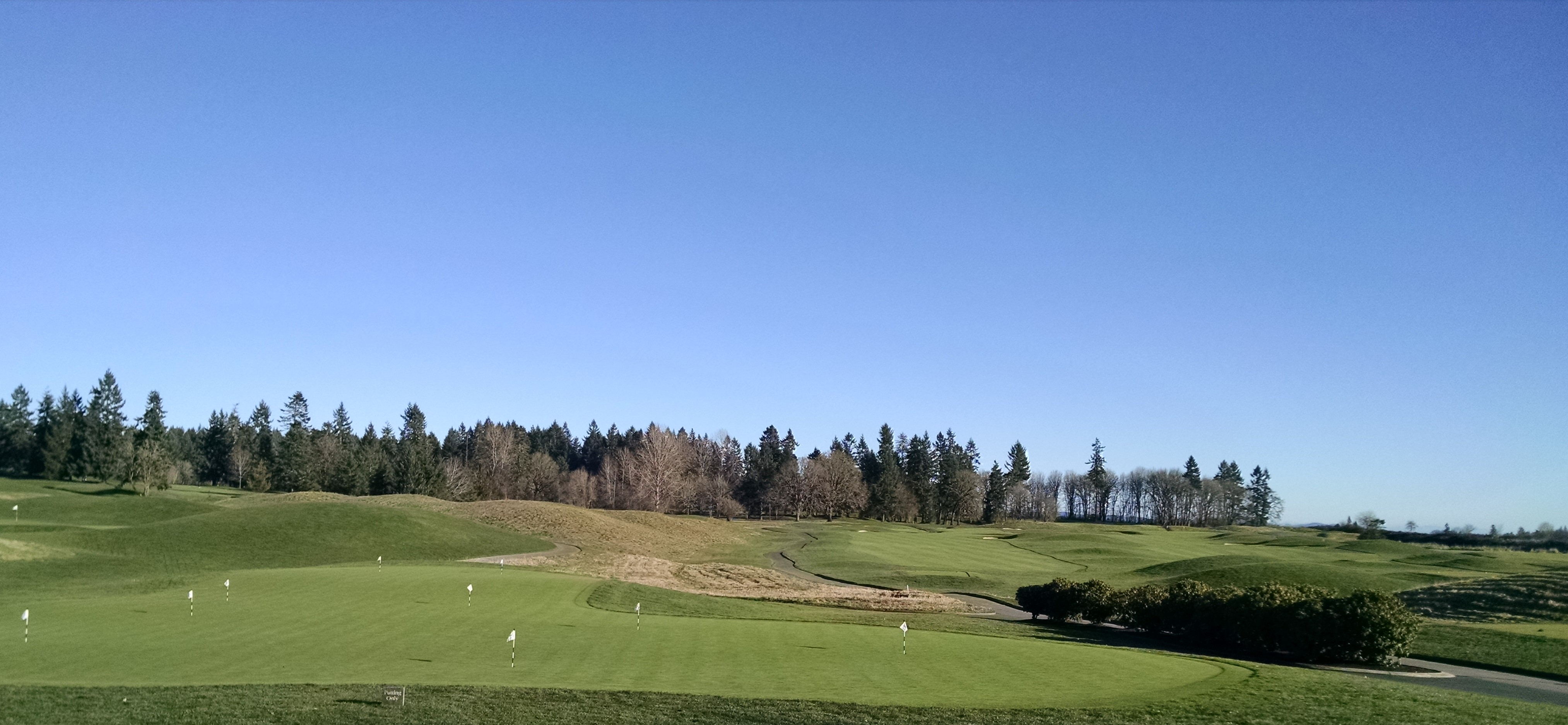 Ghost Creek course at Pumpkin Ridge Golf Club near North Plains, Oregon